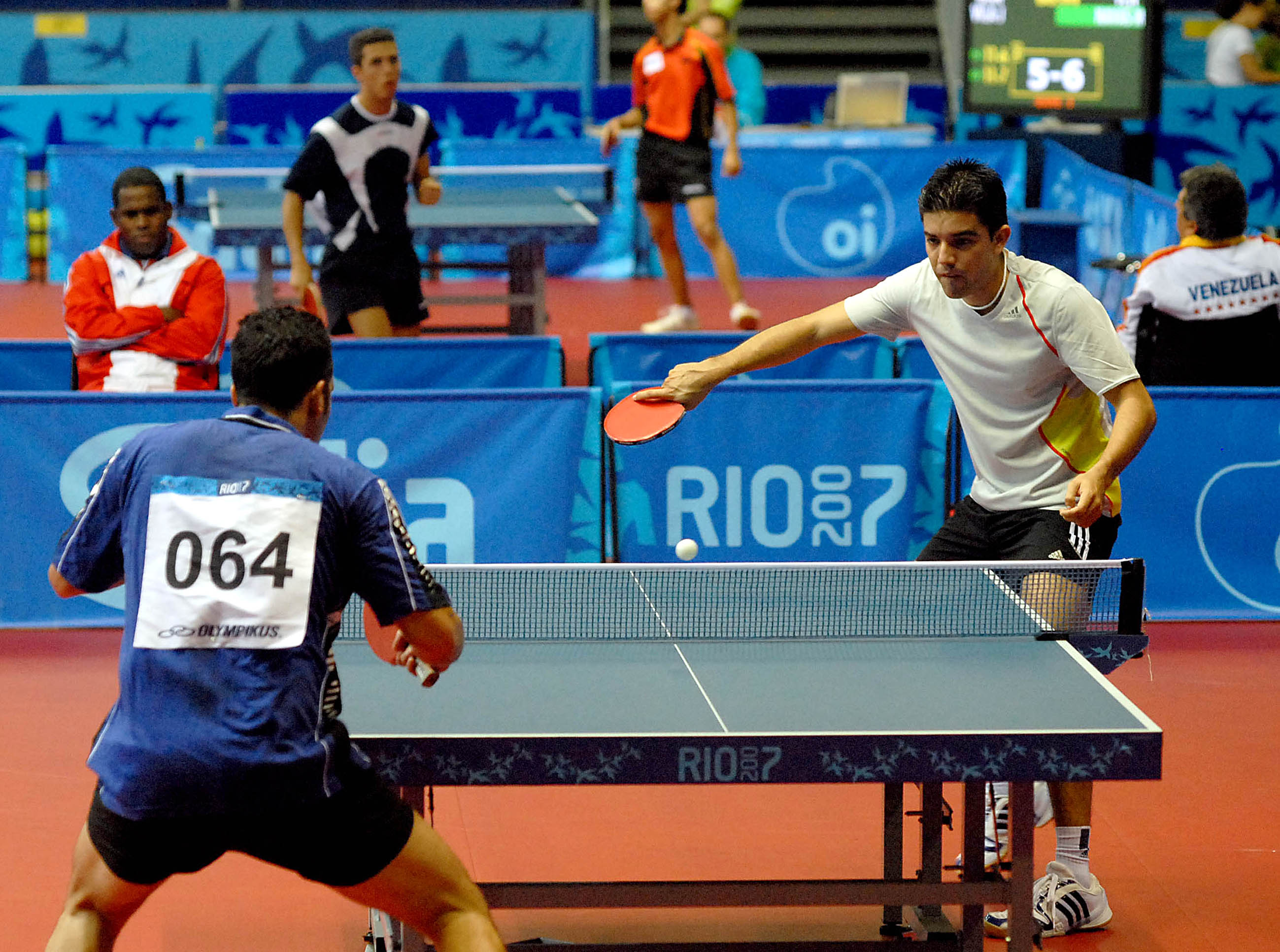 Jose Miguel Ramirez (GUA) vs. Dymeis Gongora (CUB) - Table tennis men's singles - Rio 2007